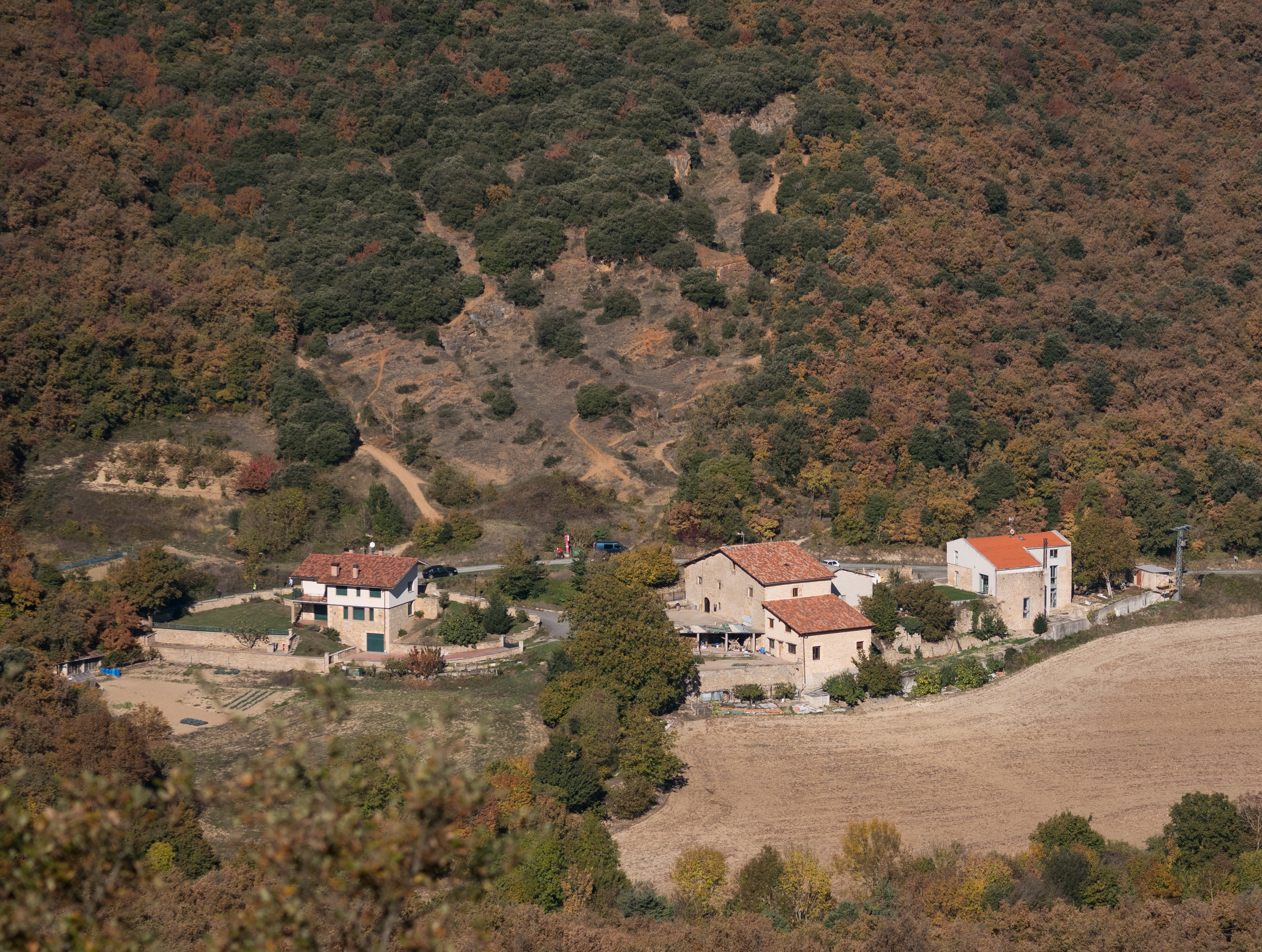 Hamlet Eskibel in Vitoria-Gasteiz. Basque Country, Spain